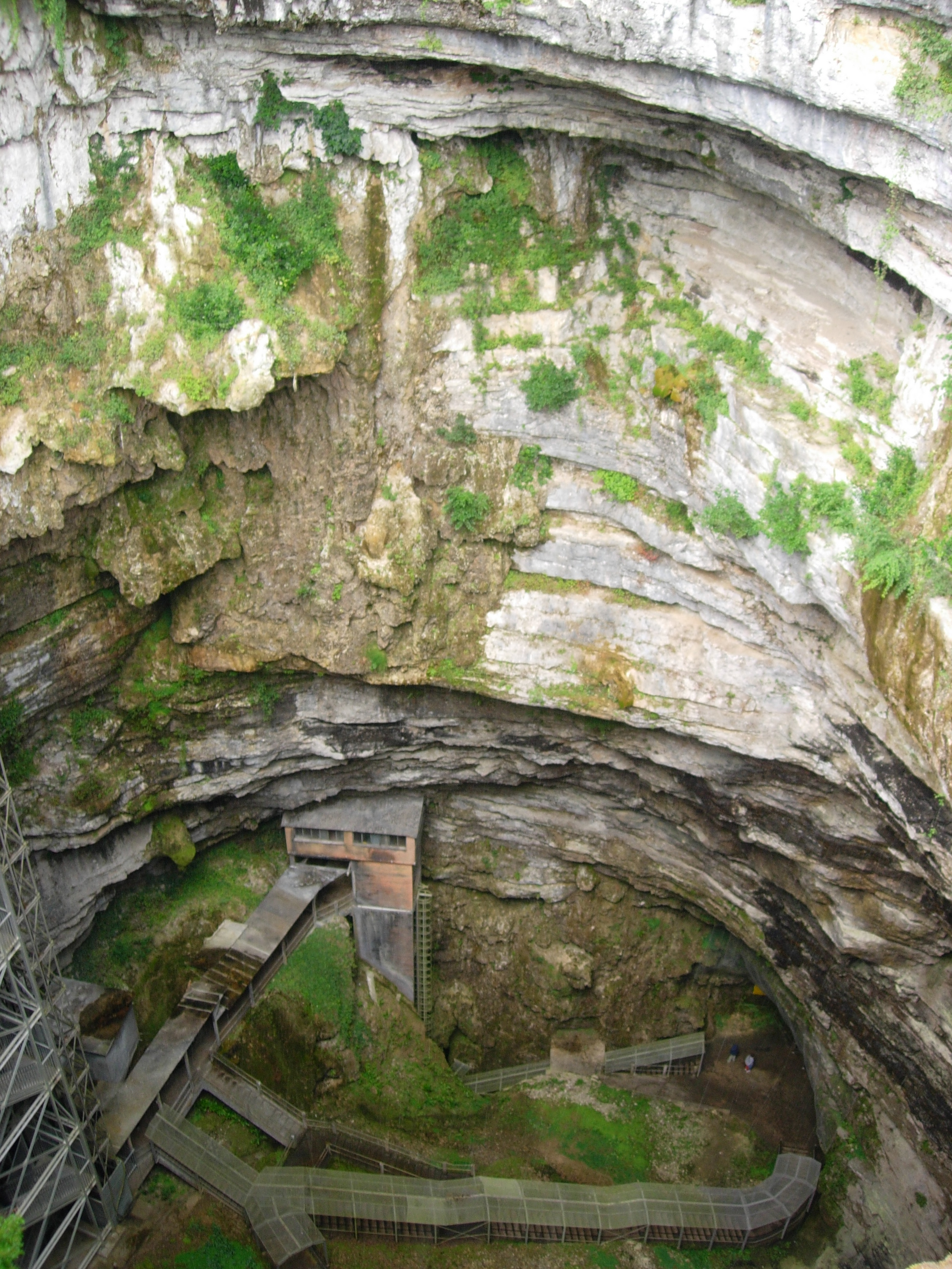 The Padirac Chasm or Gouffre de Padirac